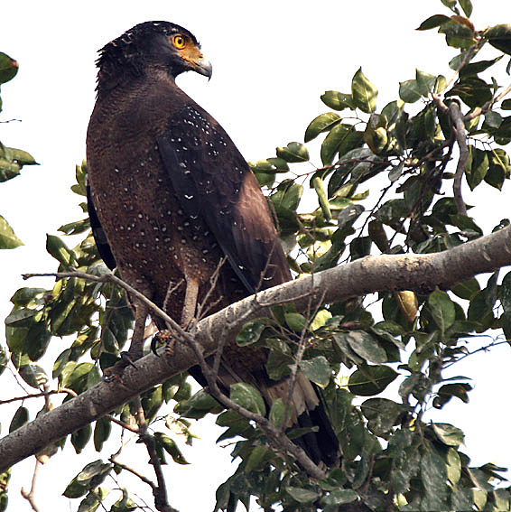 Crested Serpent Eagle Spilornis cheela at Hodal in Faridabad District of Haryana, India.